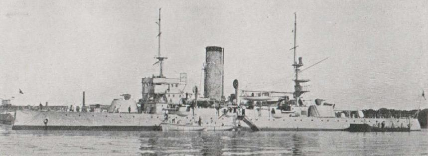 HNoMS Tordenskjold coastal defence ship